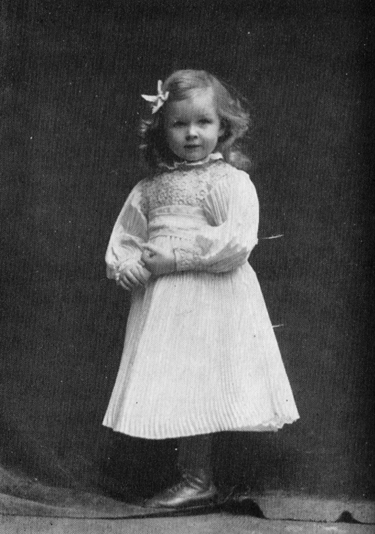 Studio photograph of Anne-Marie Strindberg, aged three, daughter of August Strindberg and Harriet Bosse.